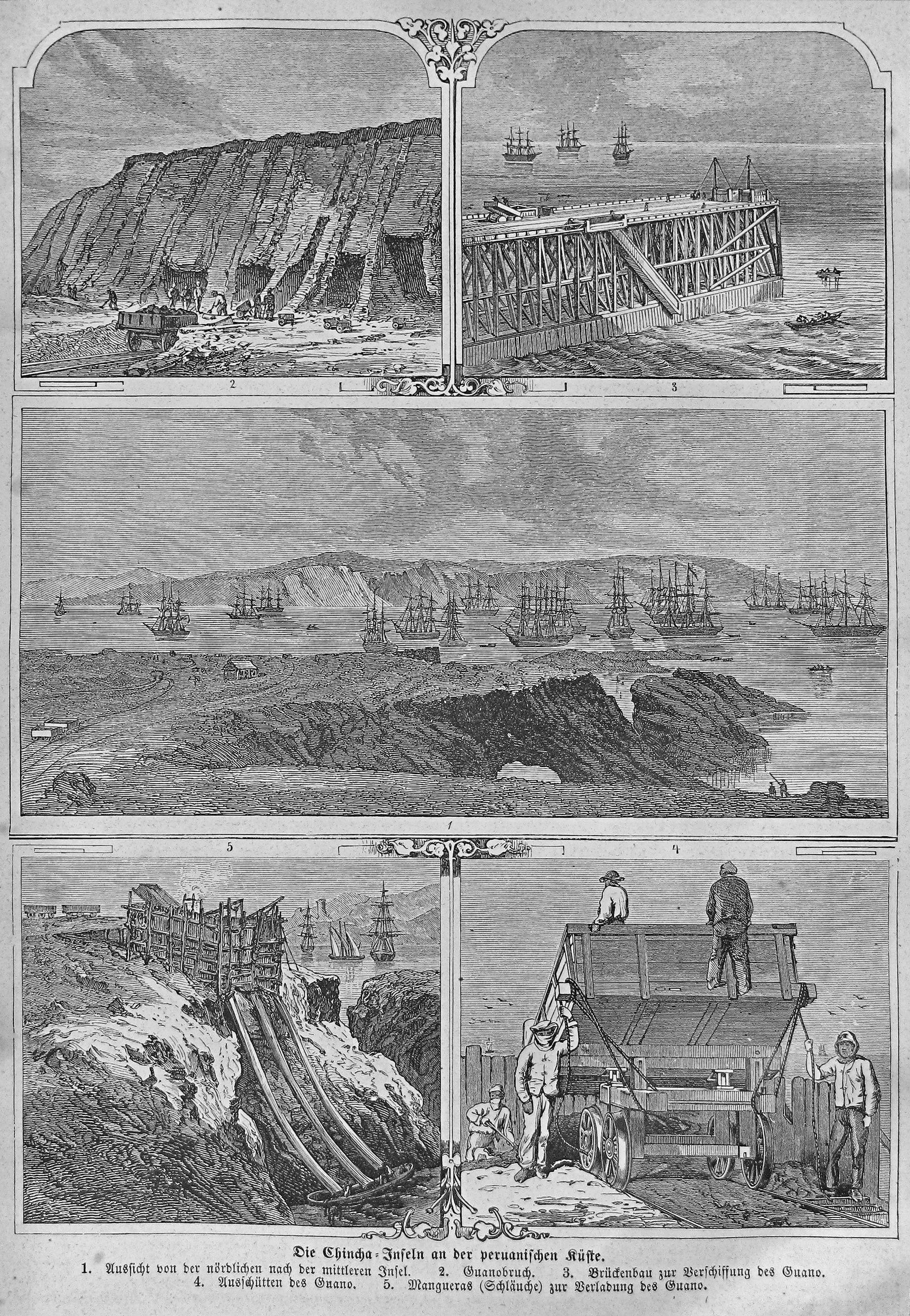 caption: "Die Chincha – Inseln an der peruanischen Küste. 1. Aussicht von der nördlichen nach der mittleren Insel. 2. Guanobruch. 3. Brückenbau zur Verschiffung des Guano. 4. Ausschütten des Guano. 5. Mangueras (Schläuche) zur Verladung des Guano."